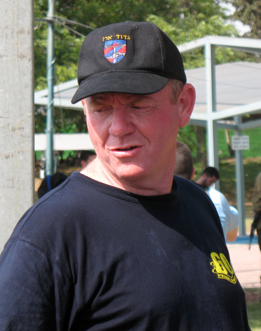 Brig. Gen. Ronny Benny, the Chief Military Police Officer (provost) in the Israel Defense Forces.